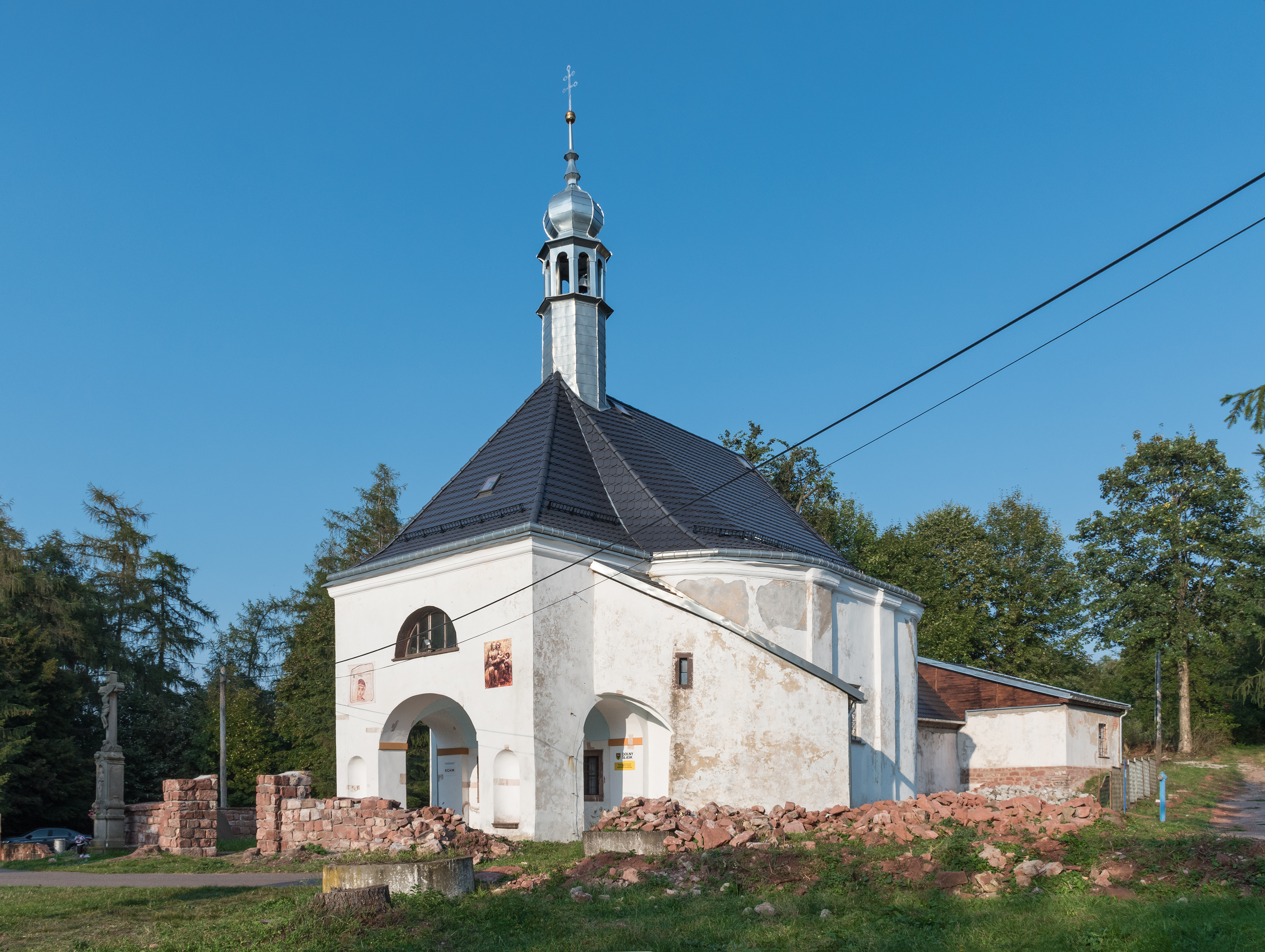 Saint Anne church in Nowa Ruda